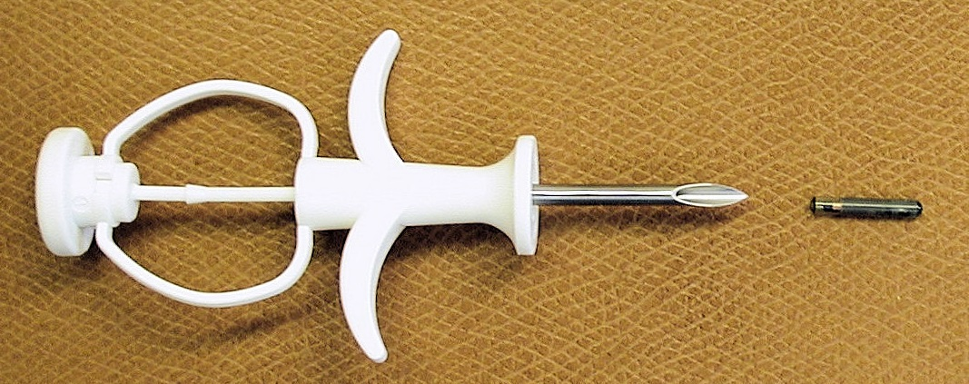 134.2 kHz RFID animal implant and injection device.